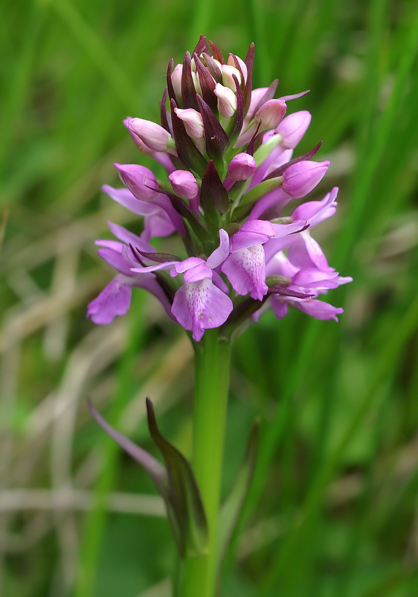 Dactylorhiza majalis subsp. sphagnicola